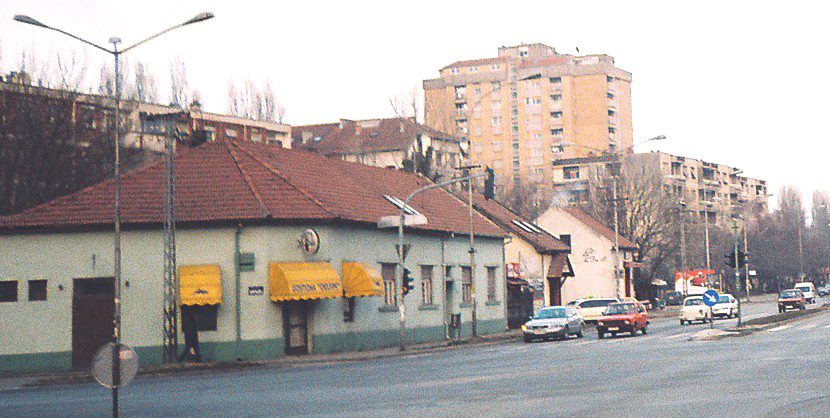 Image of Banatić neighborhood in Novi Sad (self made)